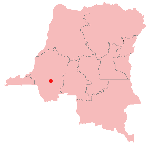 Kikwit, Democratic Republic of the Congo Location Map; created with the GIMP. Made by User:Acntx.